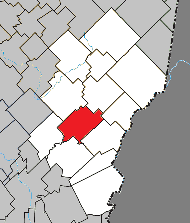 Location of Sainte-Rose-de-Watford, Quebec within Les Etchemins Regional County Municipality.